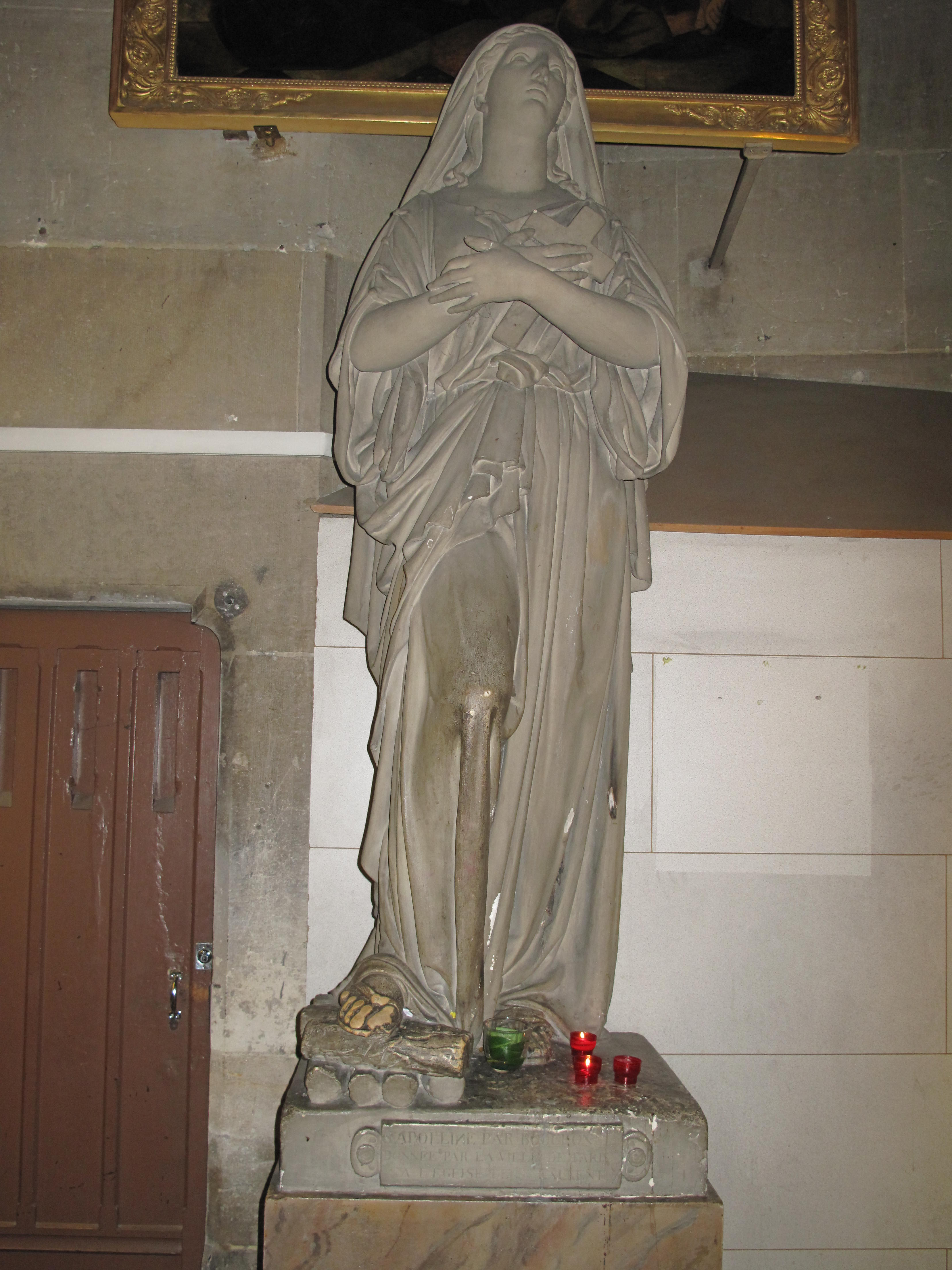 Statue of Sainte-Apolline in the church of Saint-Laurent in Paris 10th arrond.